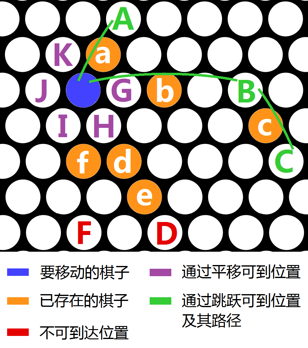 Own work based on image:Chinese checkers start.svg